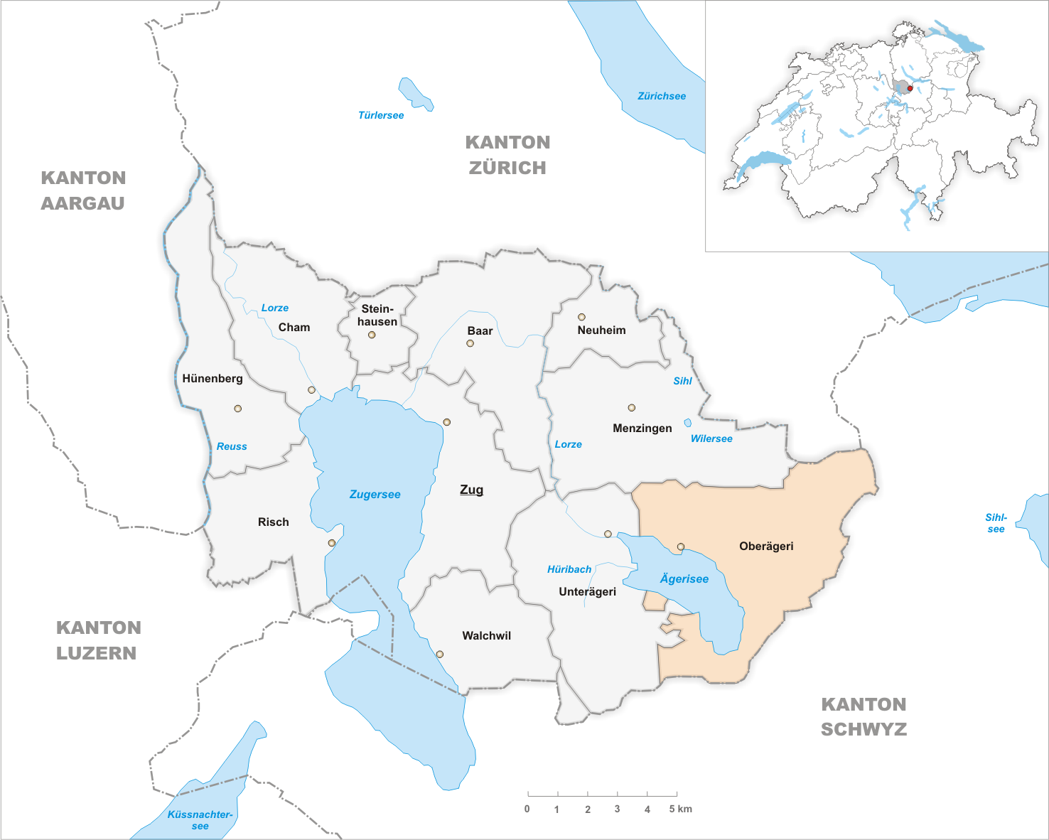 Municipality of Oberägeri